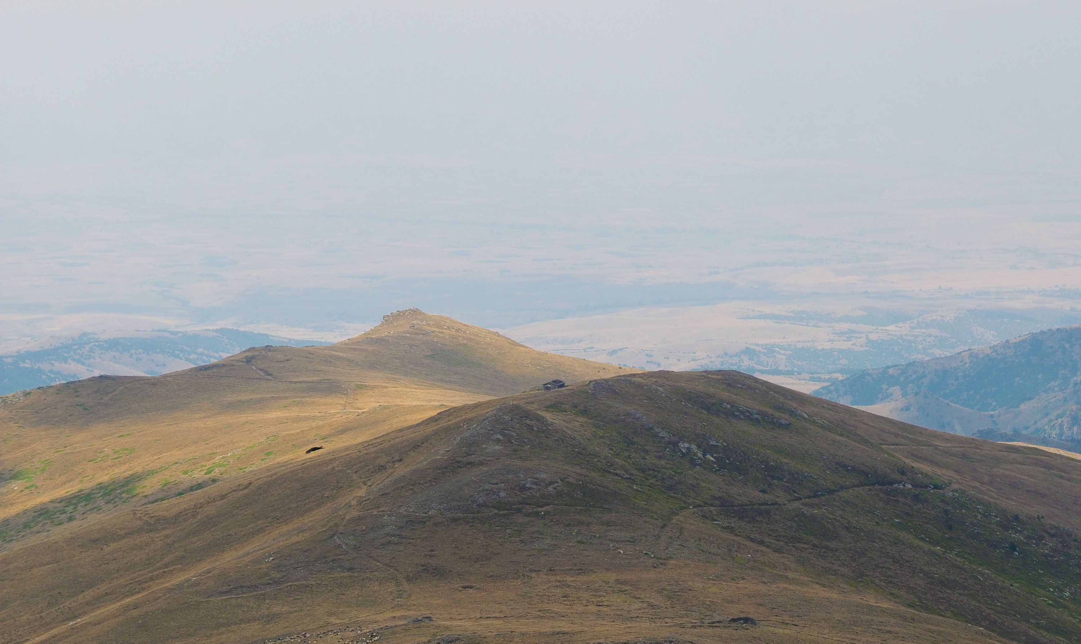 Starkov Zab, Nidže mountains, Makedonija Српски (ћирилица): Старков Заб (2213 м), Ниџе планина, граница Грчка-Македонија. Поприште Солунског фронта одакле је гађала бугарска артилерија у бици за Кајмакчалан 1916